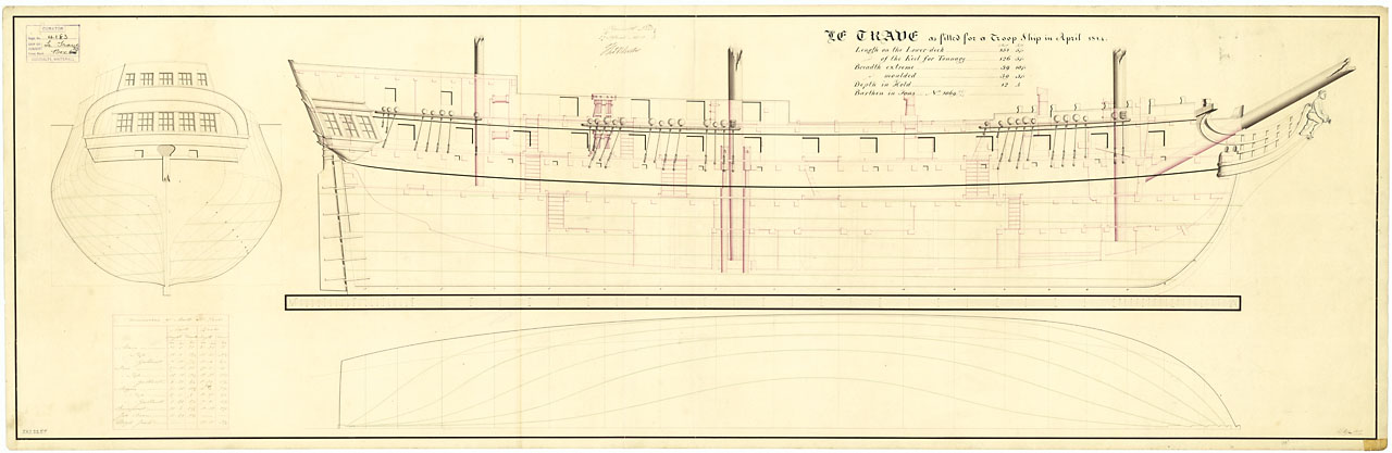 TRAVE FL.1813 [FRENCH] lines & profile